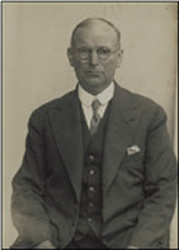 Picture of the North American naturalist Adolph Hempel (1870-1949).